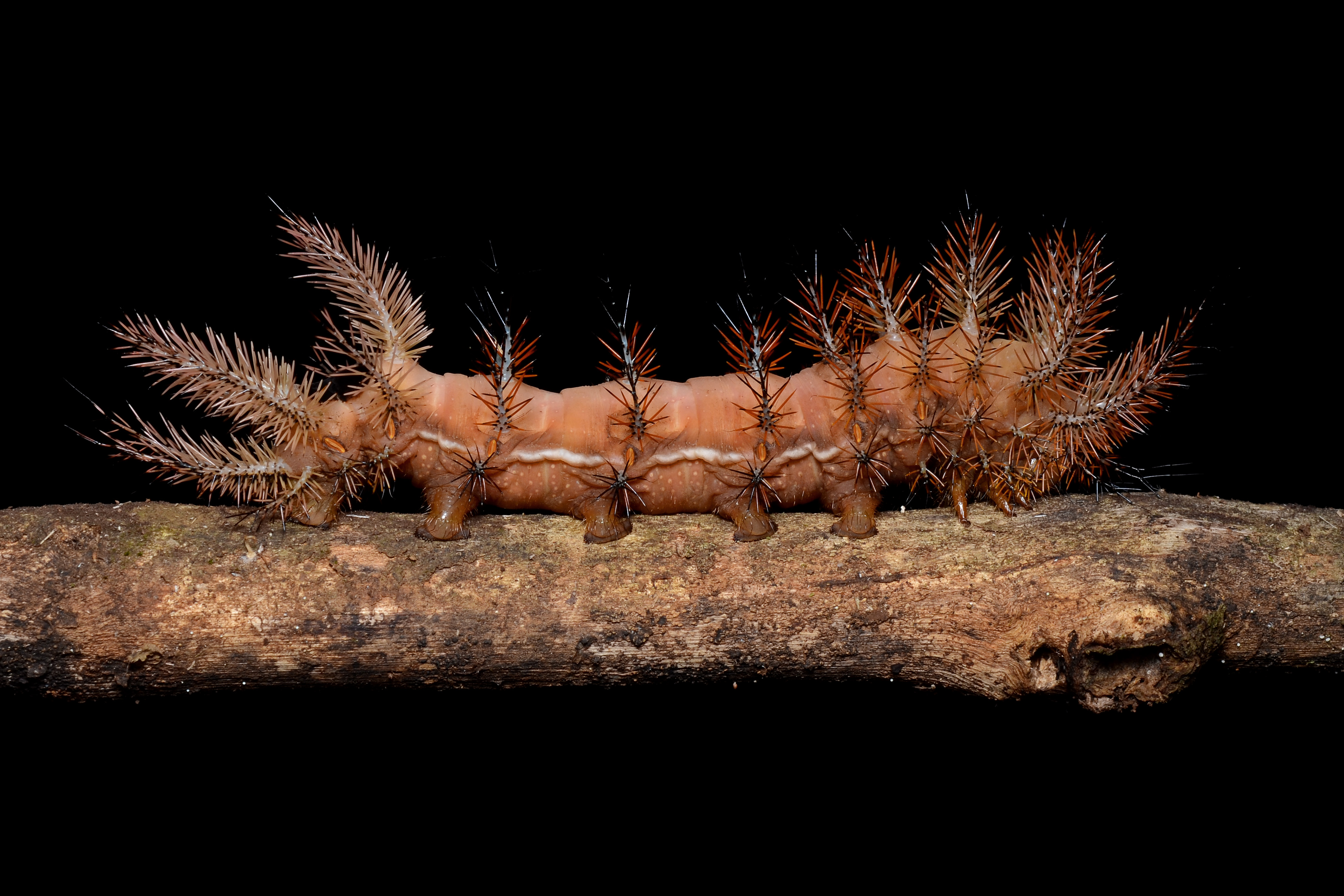 Automeris postalbida caterpillar, taken in Puerto Viejo, Heredia, Costa Rica.